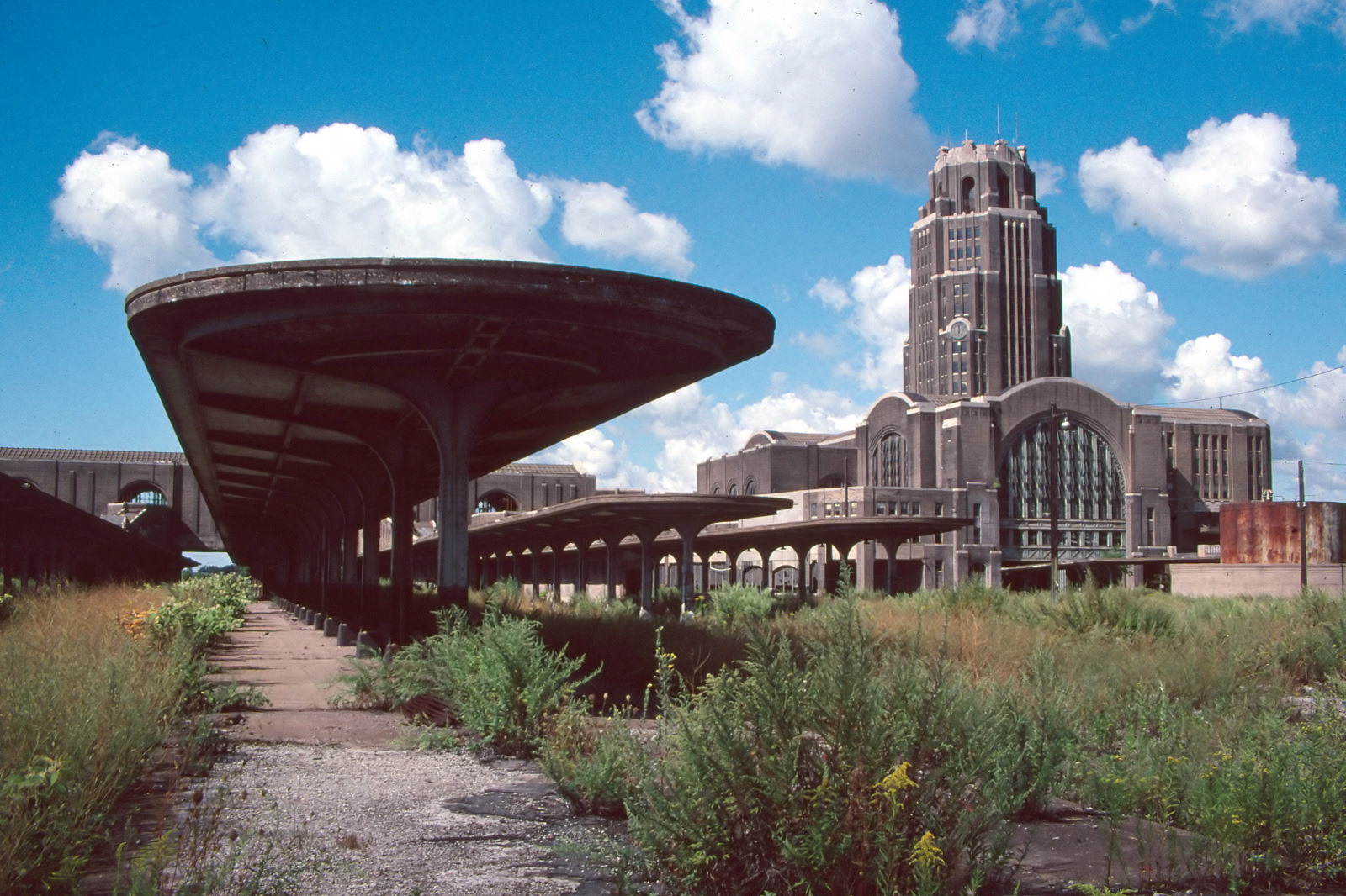 Buffalo NY Central Terminal, September 1989. I felt like "Indiana Bruce in the Temple of Transportation" while we wandered through this mega structure. This was one of the last great railroad stations built, opening in 1929, when rail passenger travel had already passed its peak. It never was used to capacity and was finally abandoned about 1980. Quite eerie to wander through its great concourse and along the weed overgrown platforms. Scan from 35mm slide.